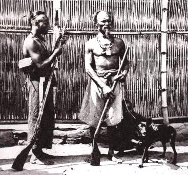 Aboriginal hunting party in Ba̍k-sa (see Muzha District). John Thomson, 1871: "A Native Hunting Party Baksa Formosa 1871". The photograph has been published: various exposures from the negatives (Thompson issues albums of his works)[1] had been made and used for other derivatives (engravings in books of that time). Cropped mirror image of version at source, but that version was reversed (see handwriting).